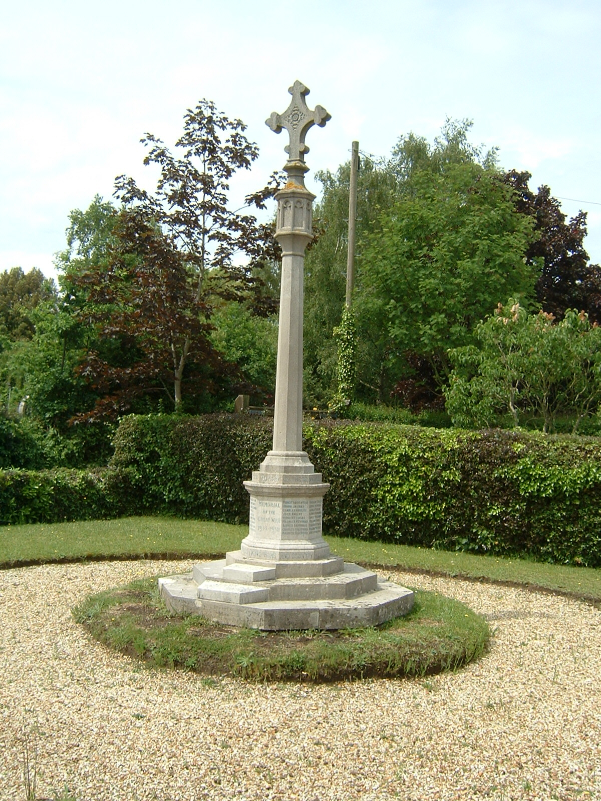 Hedge End War Memorial, near St Johns Church.